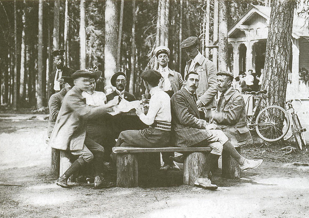 Cycling tourism became popular in the 1900s.